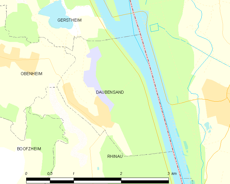 Map of French municipality